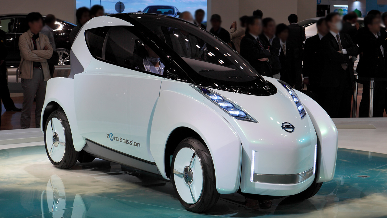 Nissan Landglider at the 2009 Tokyo Motor Show.